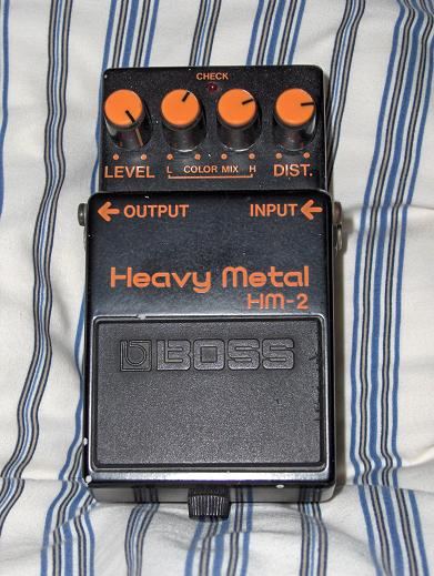 Picture of the Boss HM-2 Heavy Metal distortion pedal